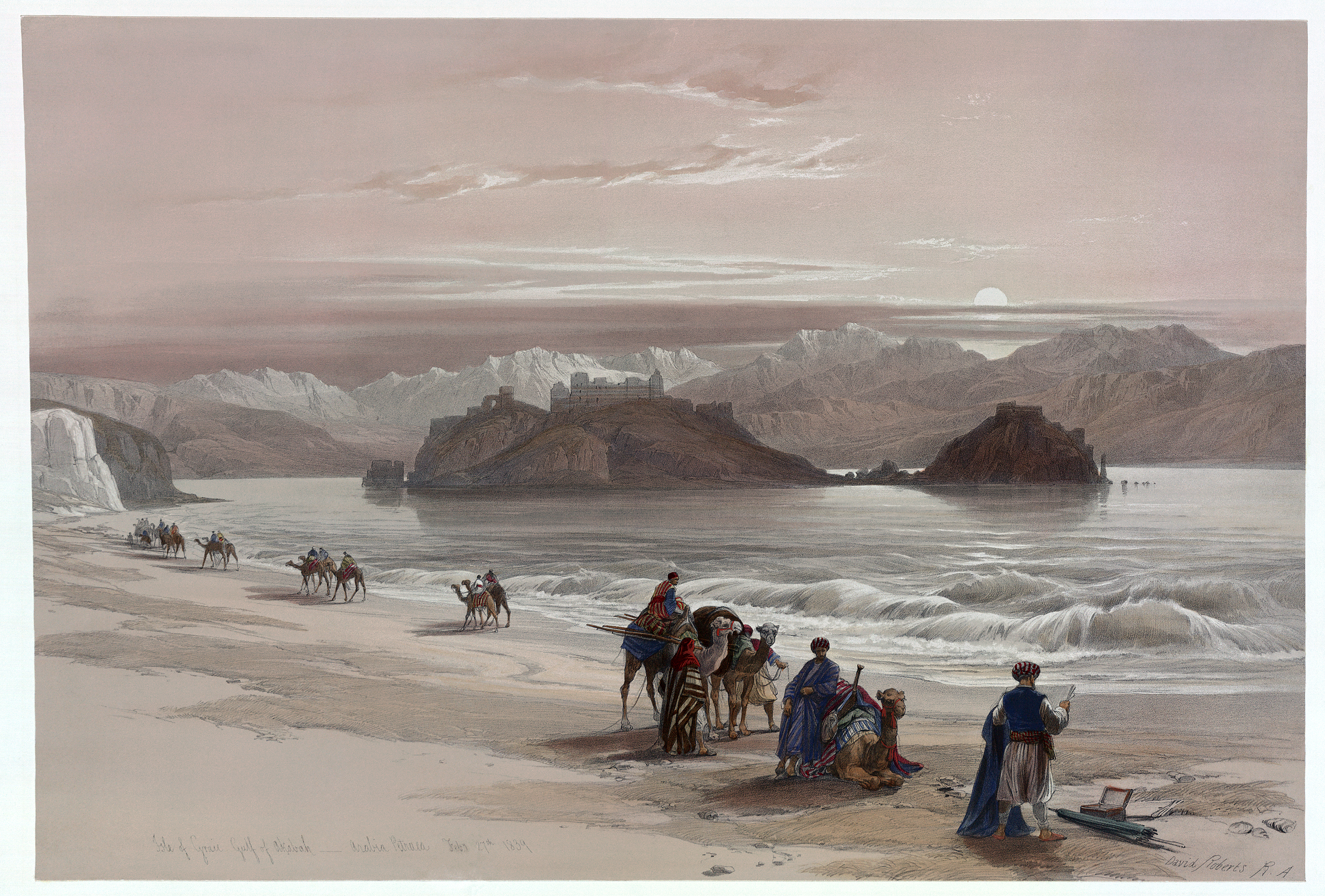 Isle of Graia Gulf of Akabah Arabia Petraea, depicting the Pharaoh's Island in the northern Gulf of Aqaba off the shore of Egypt's eastern Sinai Peninsula.